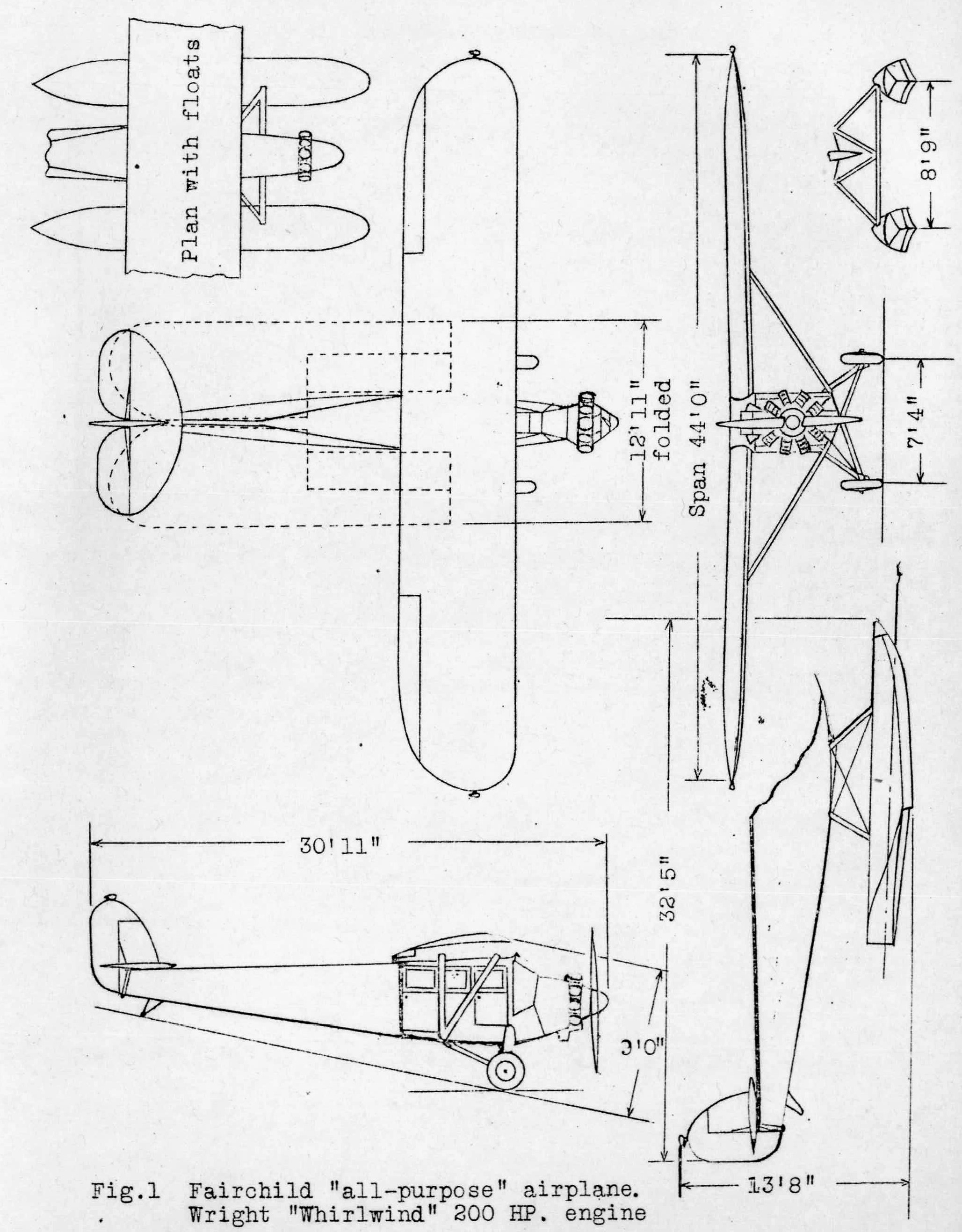 Fairchild FC 2 3-view drawing from NACA Aircraft Circular No.58